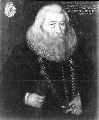 Portrait of Johannes Christoph Harpprecht (1560-1639)